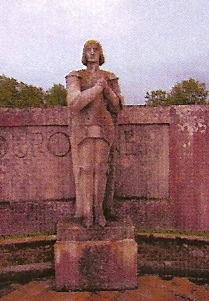 War memorial Grand Couronne in Lorraine